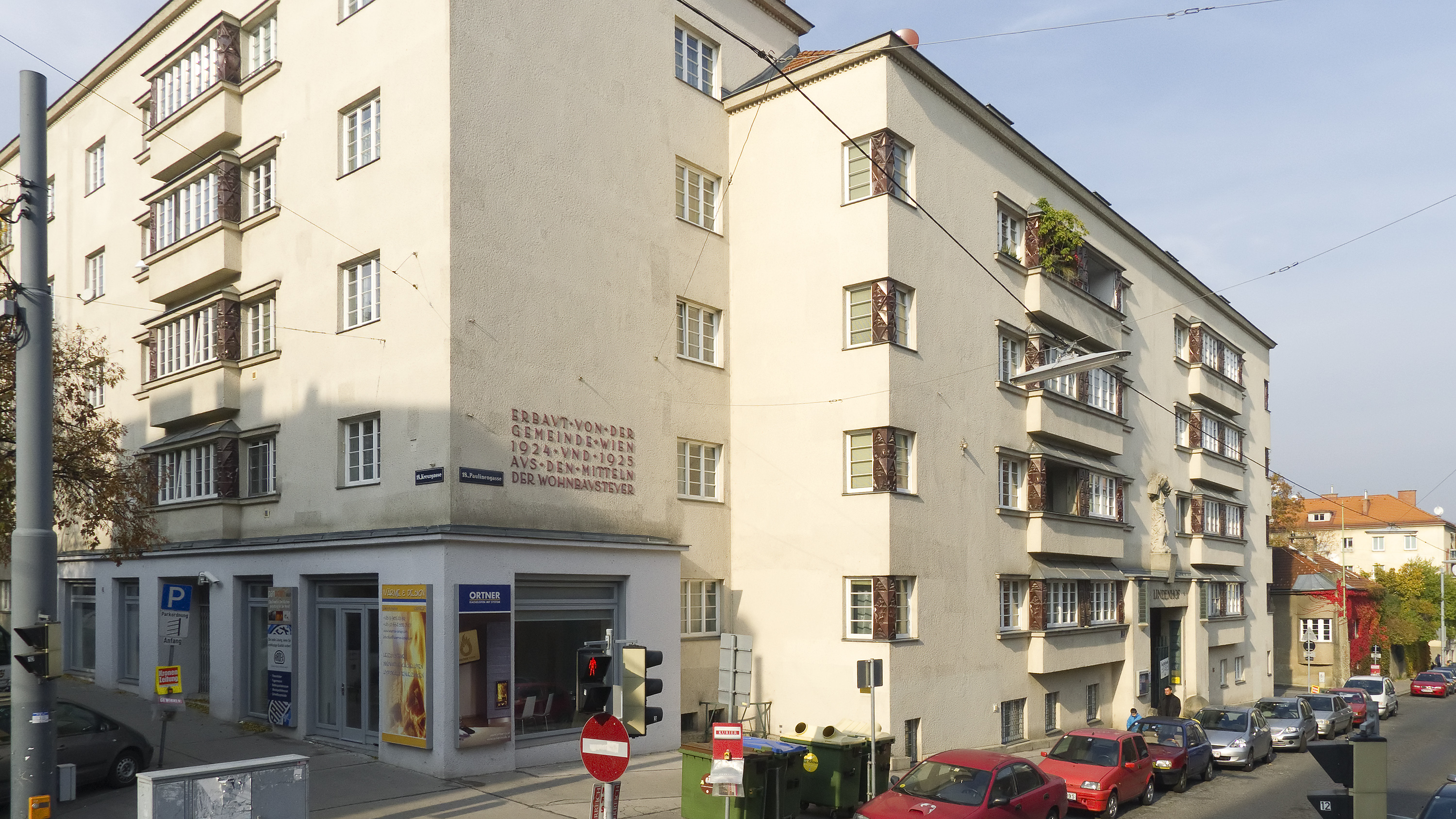 Residential building Lindenhof in Vienna 18